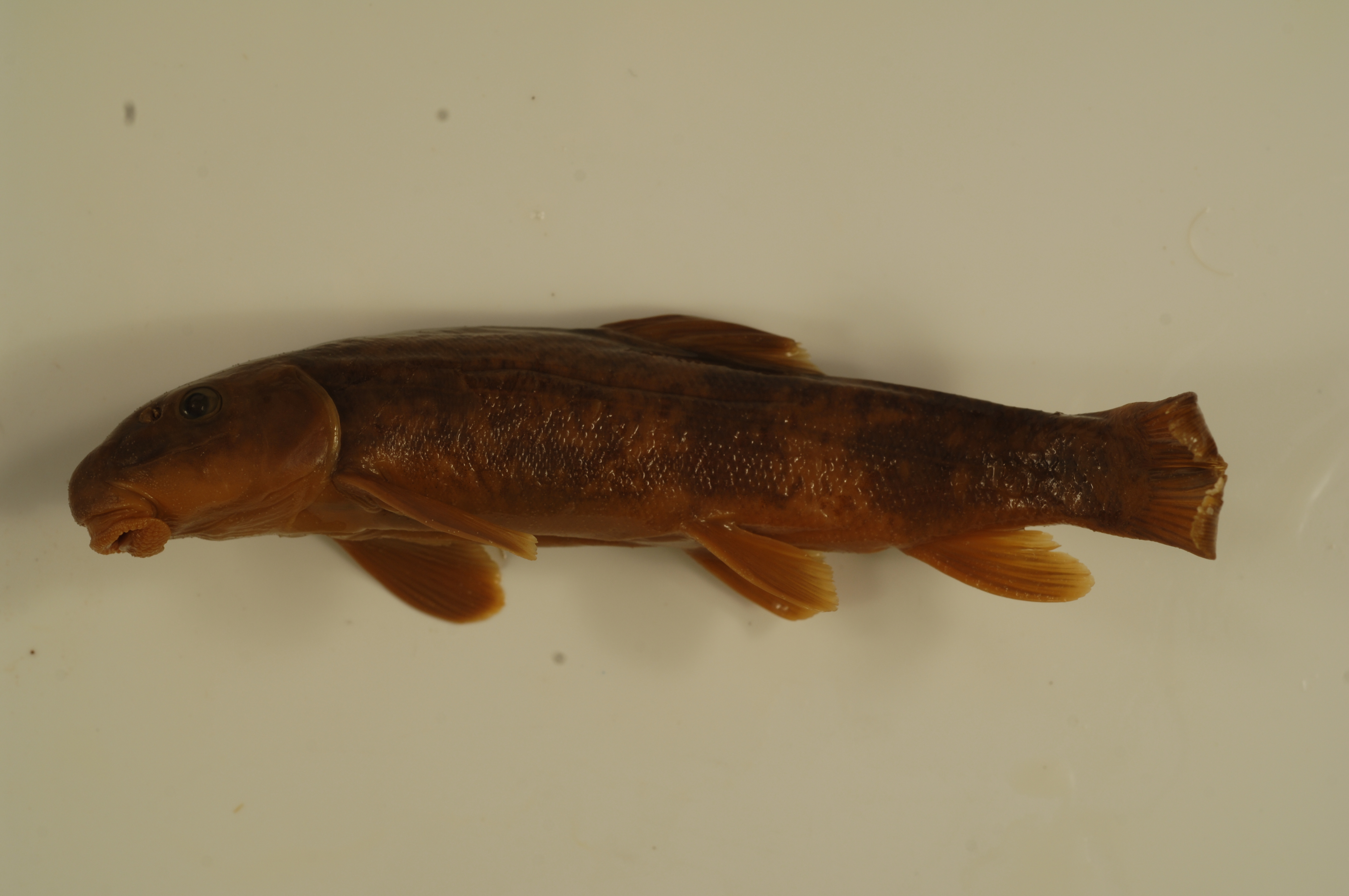 Klamath smallscale sucker (Catostomus rimiculus )